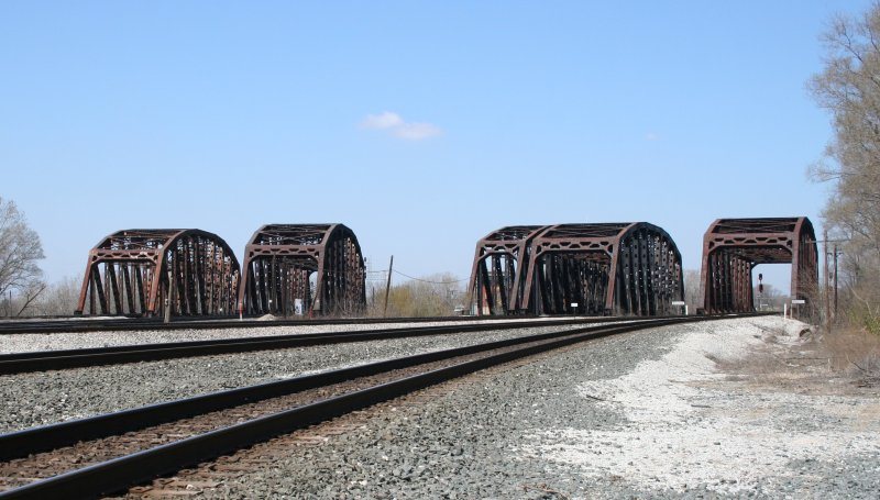 The railroad bridges at Blue Island